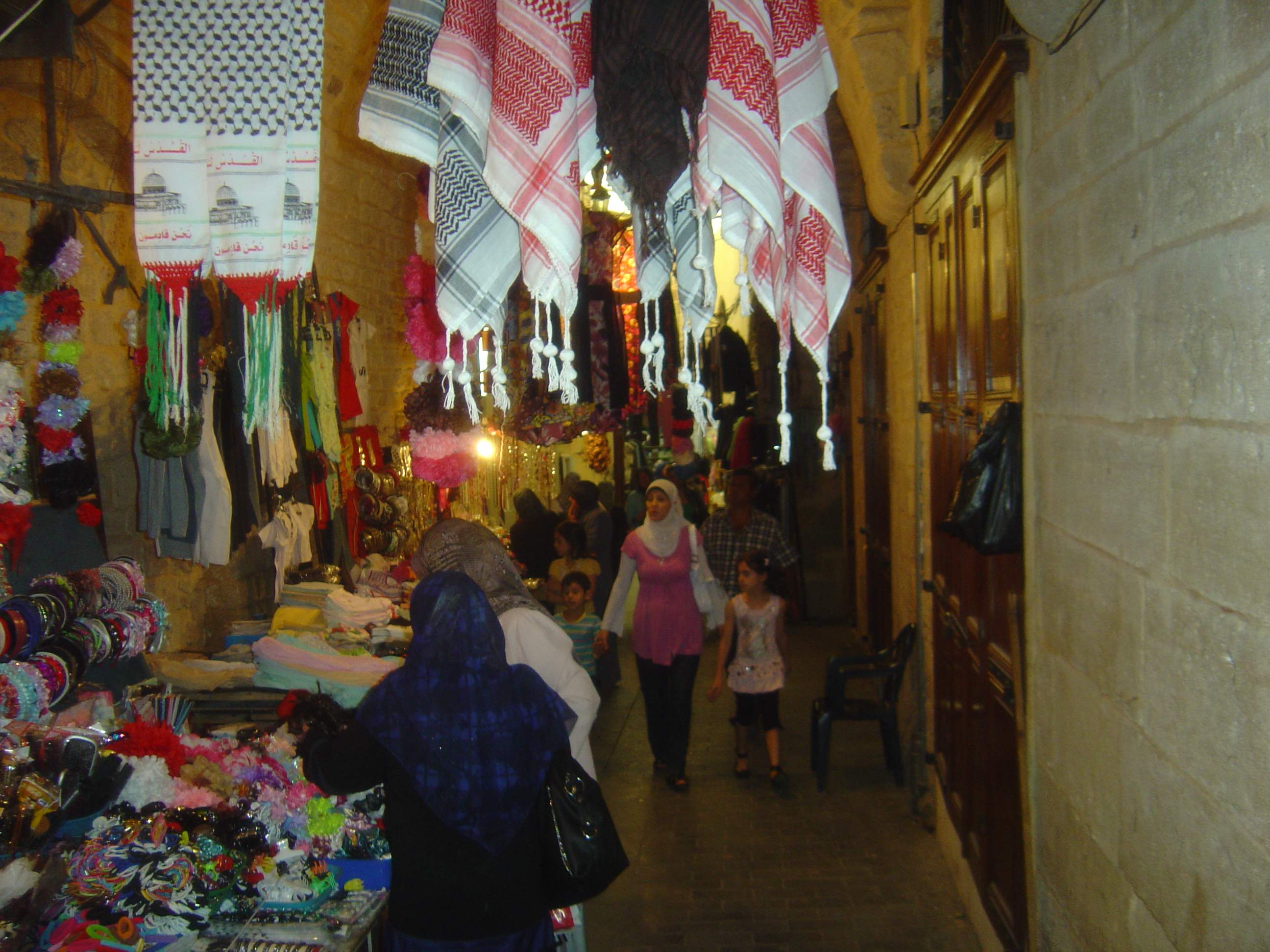 Inside the old covered souq of Sidon, Lebanon